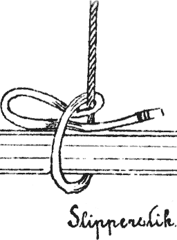 Overhand knot with draw-loop.